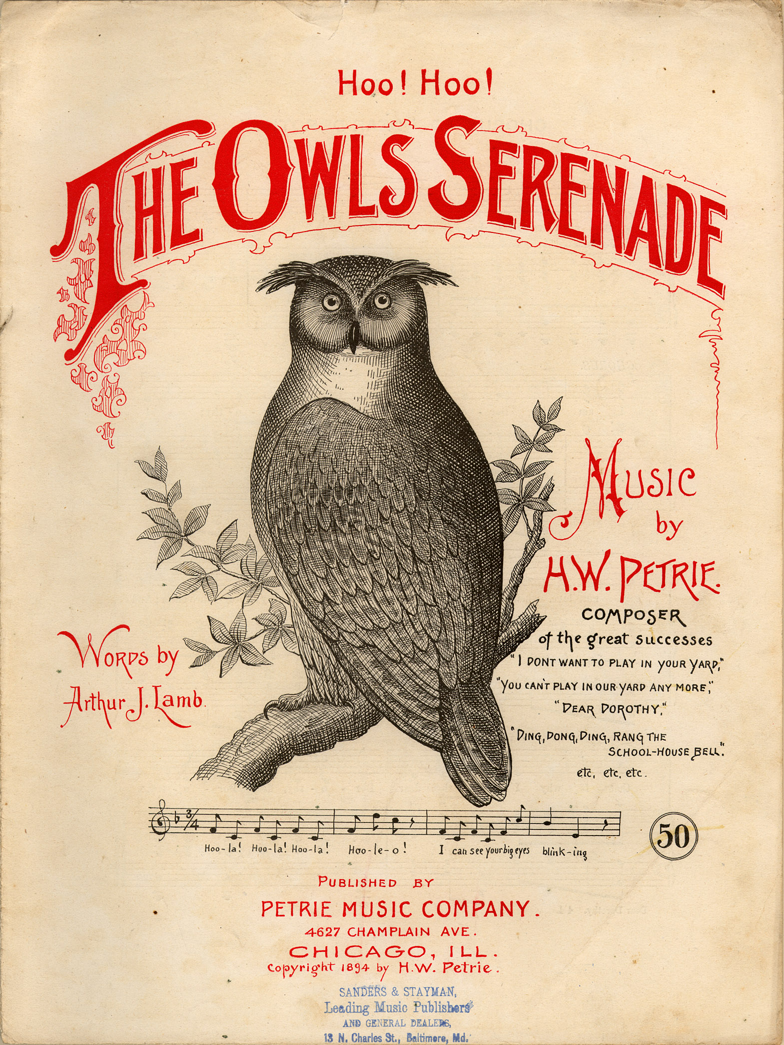 "The Owls Serenade", 1894 sheet music cover. Sheet music published by Petrie Music Co, Chicago